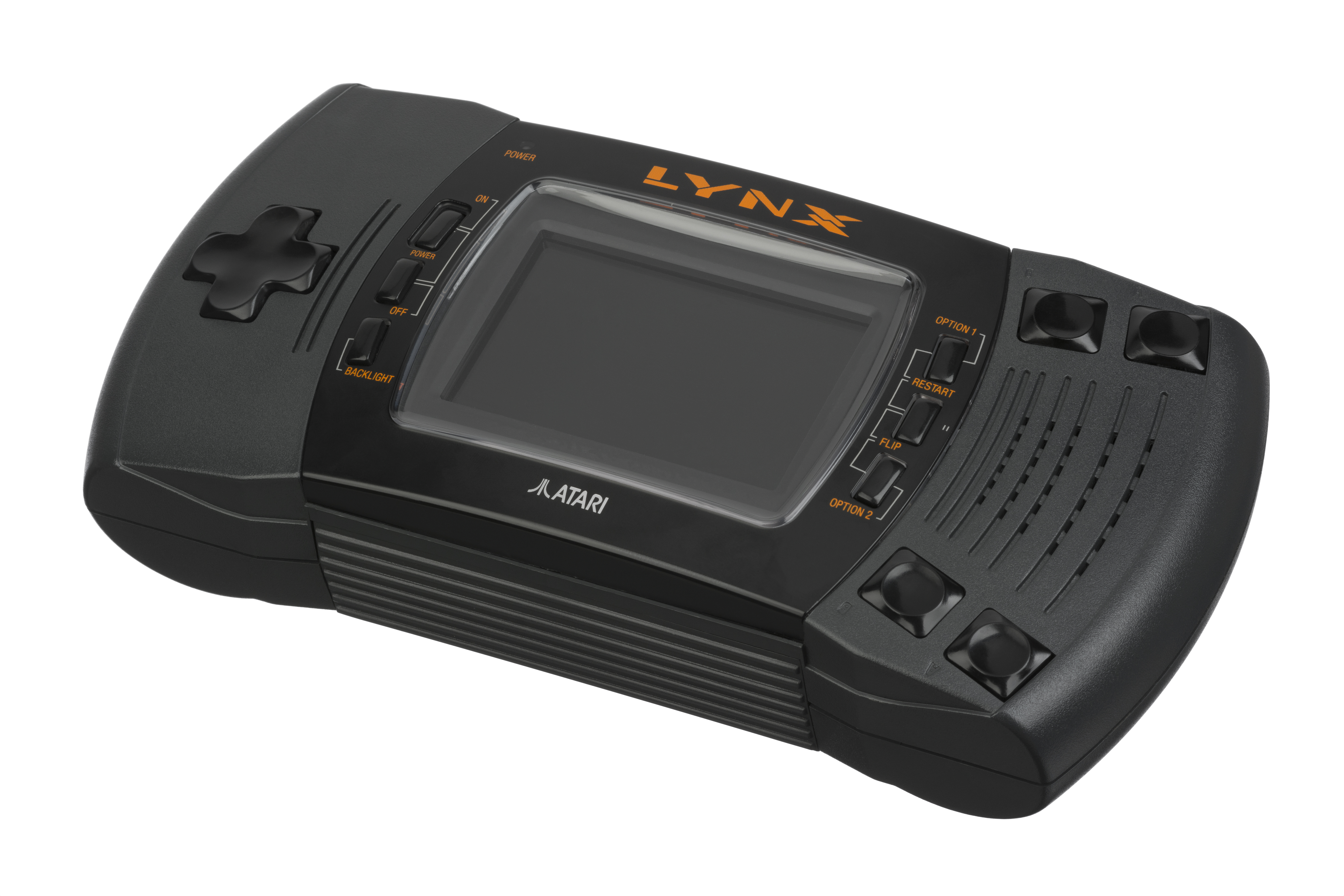 The Atari Lynx II, a handheld gaming system first released by Atari in 1989. This is the second model, which offered a bevy of improvements and tweaks that made it smaller and more ergonomic. Even with these improvements it couldn't compete with the Nintendo Game Boy or Sega Game Gear, which offered more and better games. The Lynx found itself in distant third place, with game releases drying up after 1992.